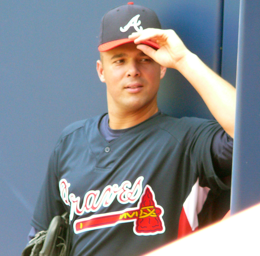 If used somewhere other than Wikipedia, Nelson, by name. 03:49, 20 September 2009 . . Chrisjnelson . . 890×876 (698 KB)